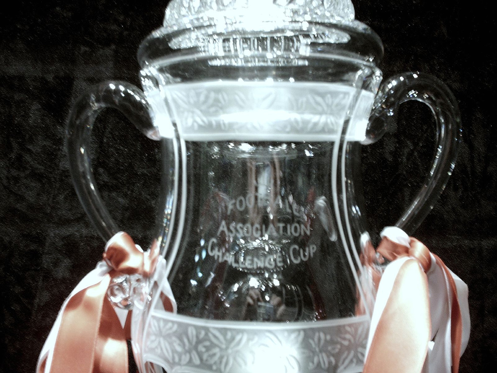 An FA CUP Replica made by Dartington Crystal of Devon